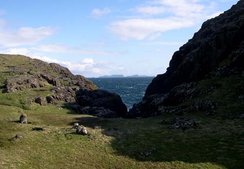 Fladda-Chuain looking north The Shiant Isles can be seen in the distance. Fladda-Chuain lies 3 miles off Rubha Hunish on Skye